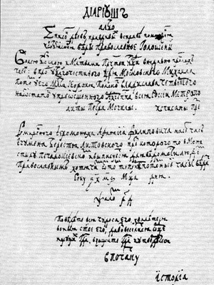 Diarush of Aphanasiy